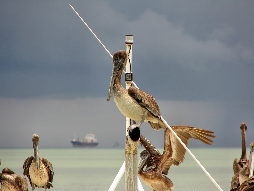 Brown Pelicans roosting on a boat in Trinidad.